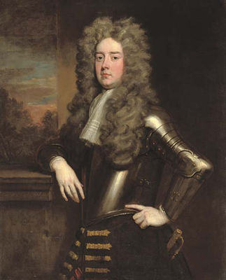 Depicted person: Edward Lee, 1st Earl of Lichfield (1663-1716)